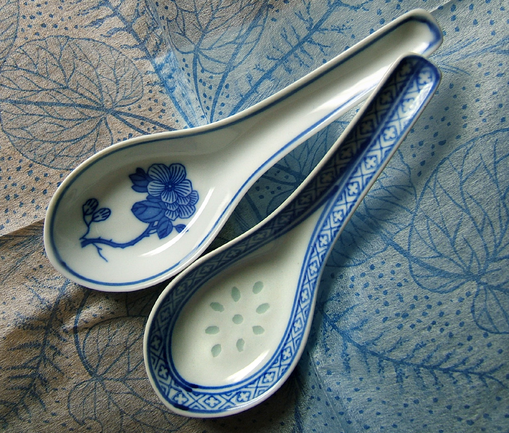 Porcelain spoon